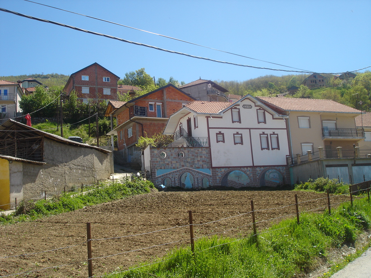 village of Gorenci, near Debar, Macedonia